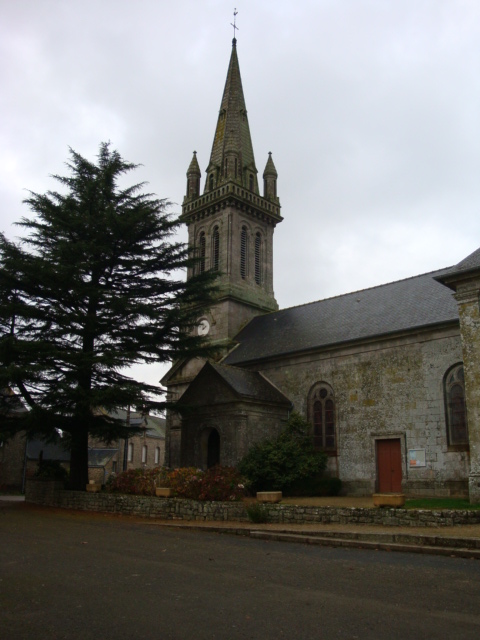 Church of Séglien - Morbihan